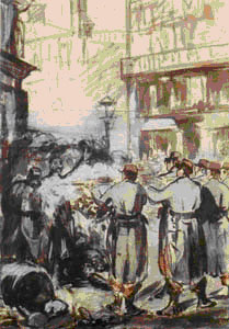 Barricade